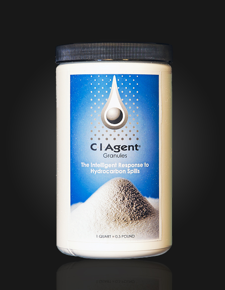 Photo of C.I.Agent quart container.